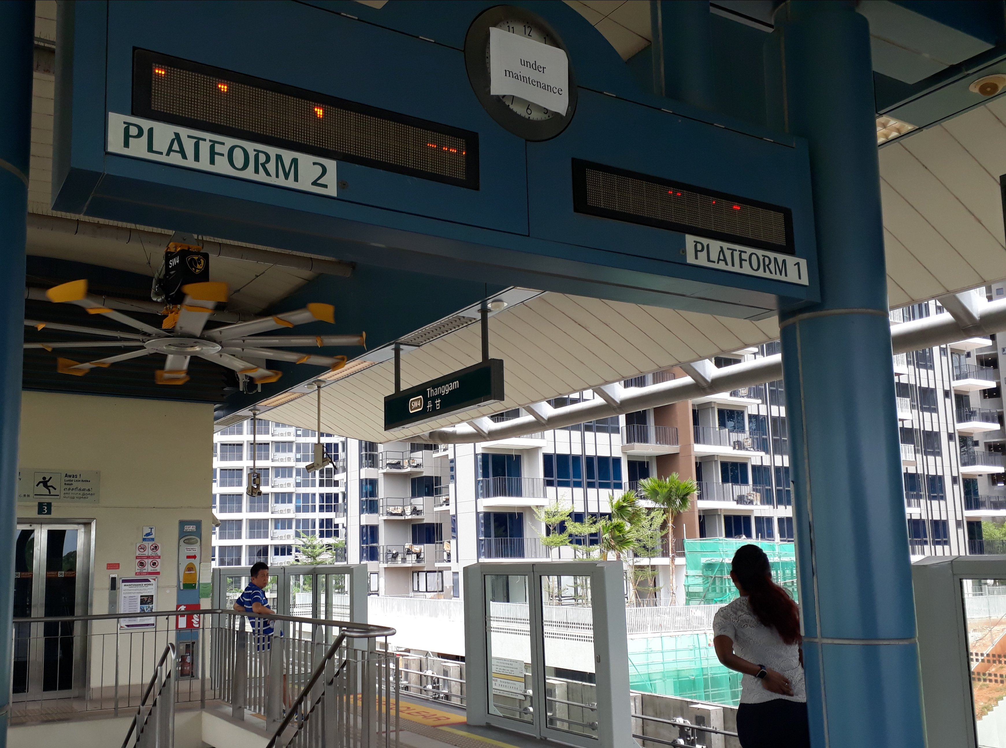 Station on Sengkang LRT